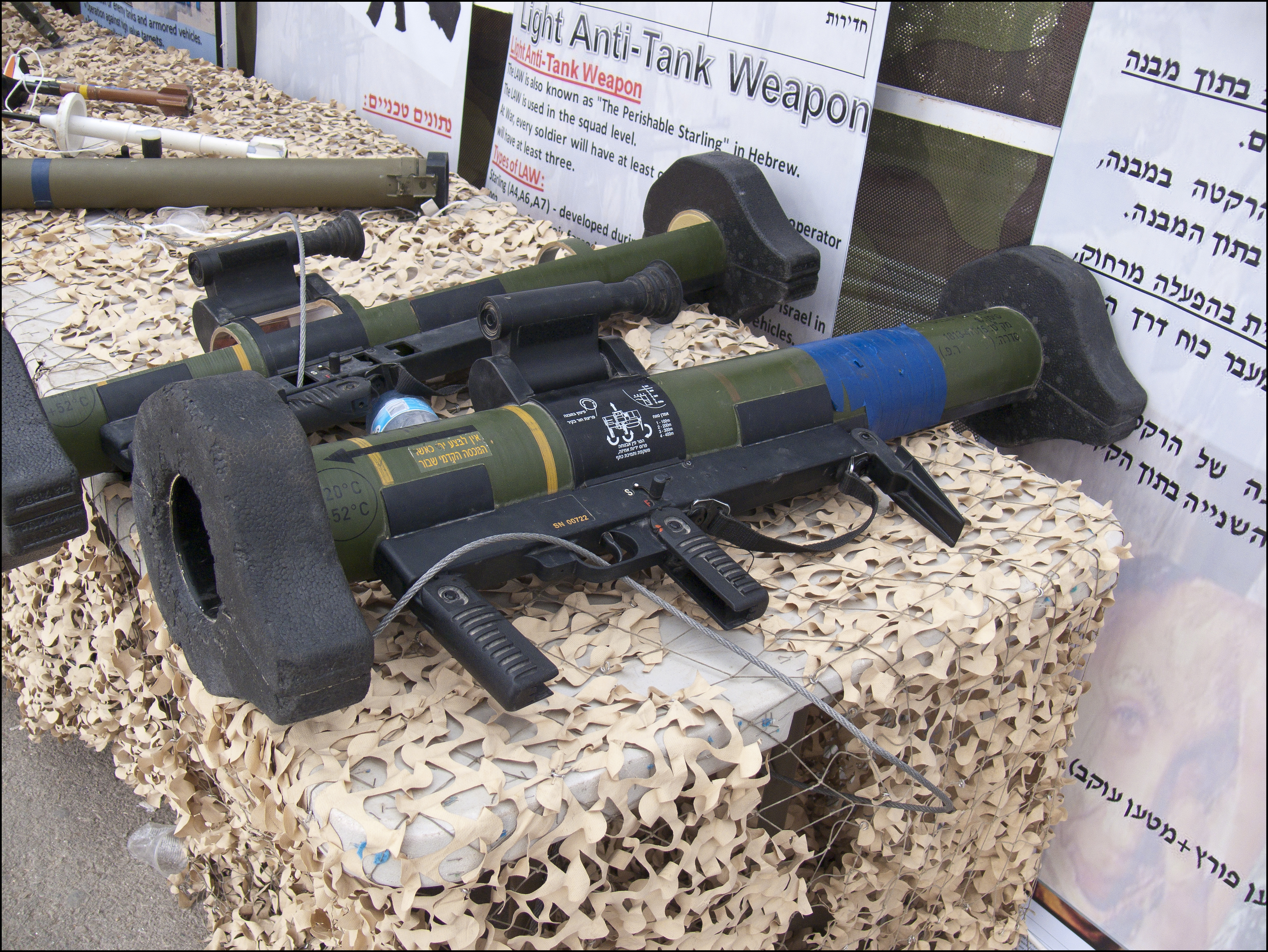 IDF Matador shoulder-launched anti-structure rocket (SLASR), developed by Israeli Raphael